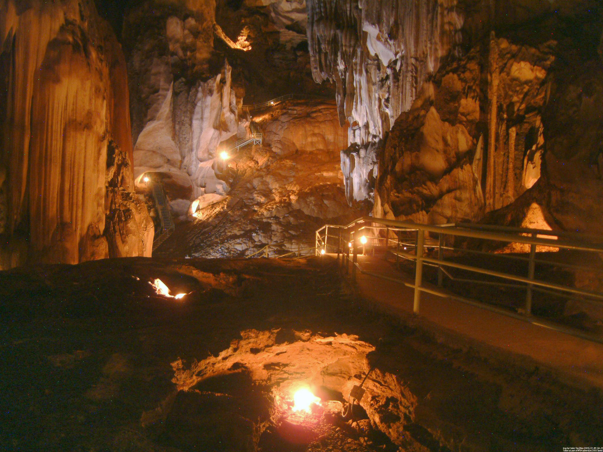 Witnessing the works of nature - An interior view of the Gua Tempurung Caves near Ipoh, Malaysia